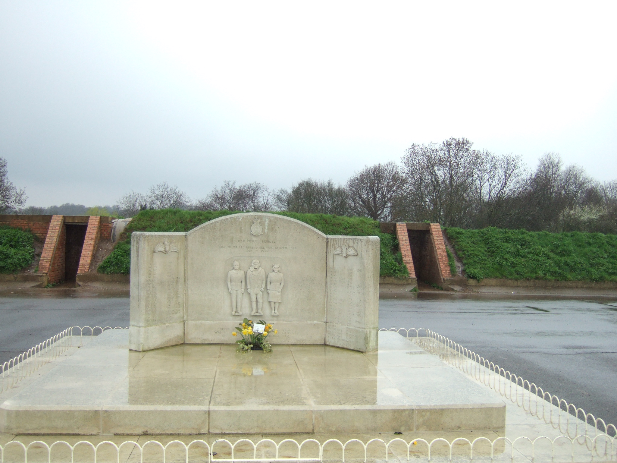 The memorial at grid reference TQ325576 beside Hayes Lane, Kenley, Tandridge in memory of all those who served at RAF Kenley